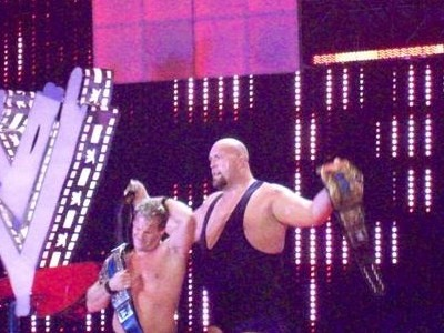 Chris Jericho And The Big Show (aka JeriShow) as the Unified WWE Tag Team Champions in October 2009.